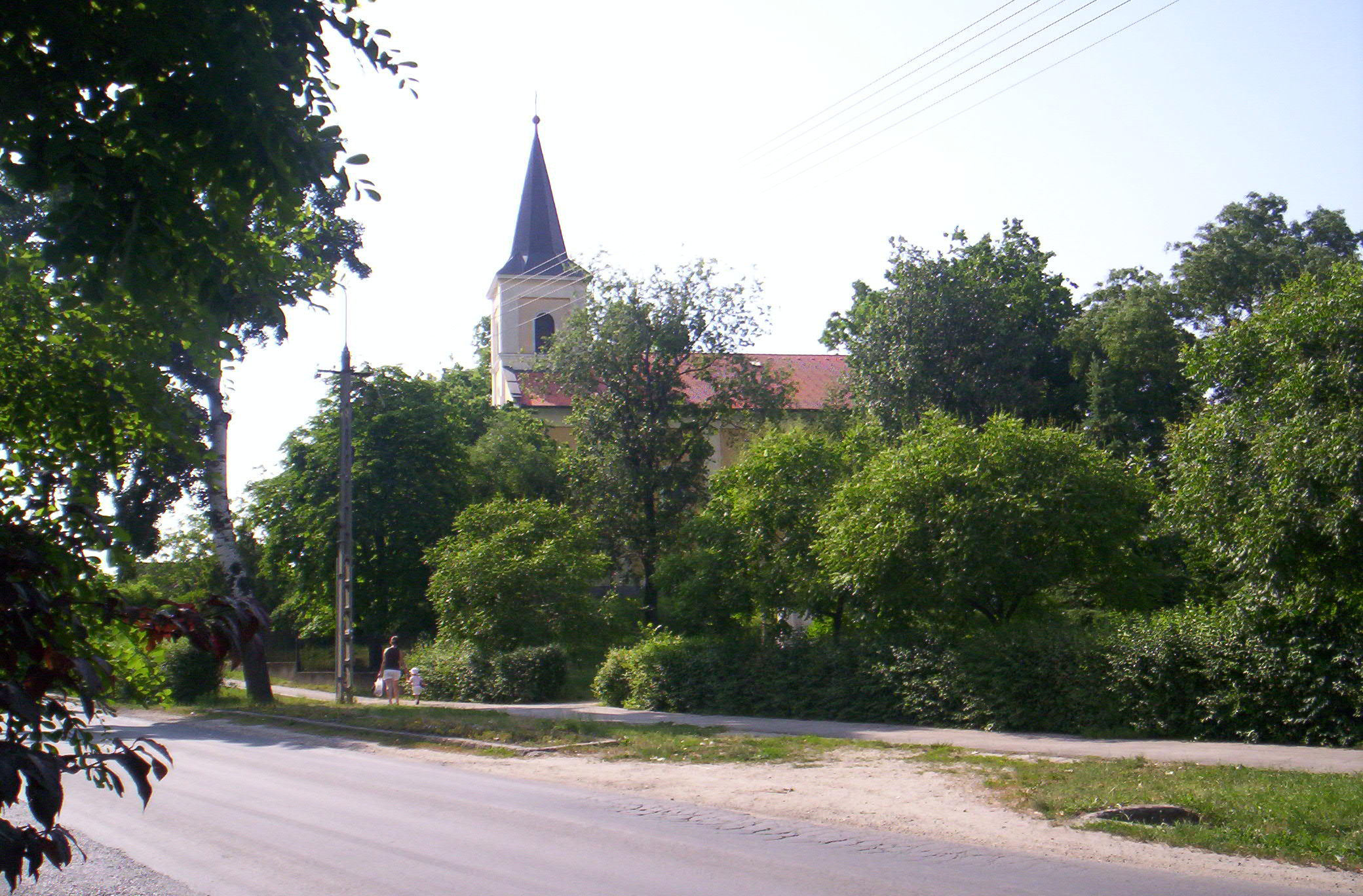 The park with the church in Ecser. This is a photo of a monument in Hungary. Identifier: 7011